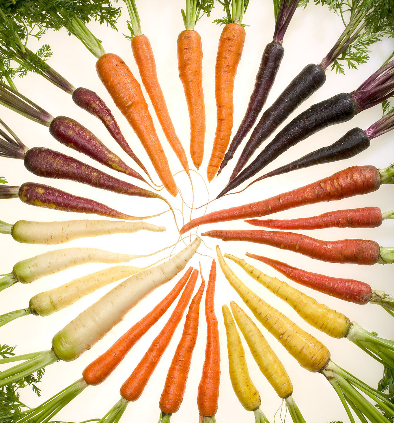 Original caption: “ARS researchers have selectively bred carrots with pigments that reflect almost all colors of the rainbow. More importantly, though, they're very good for your health.” — USDA ARS